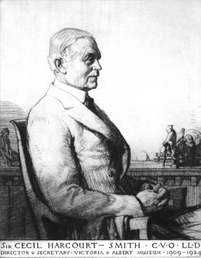 Sir Cecil Harcourt-Smith, KCVO, Director and Secretary of the Victoria and Albert Museum, 1909 – 1924